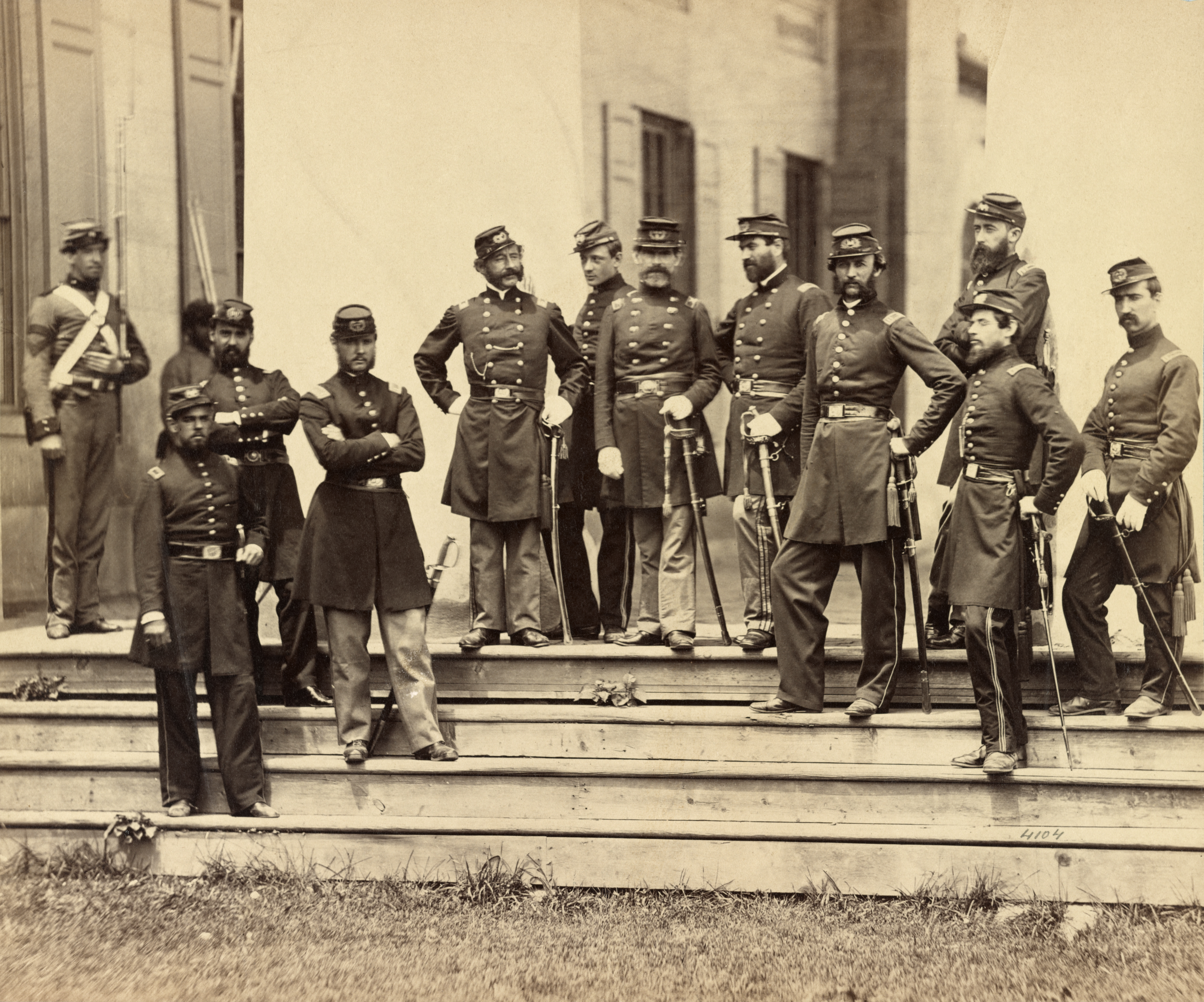 Officers of 8th New York State Militia at Arlington House, Arlington, Virginia